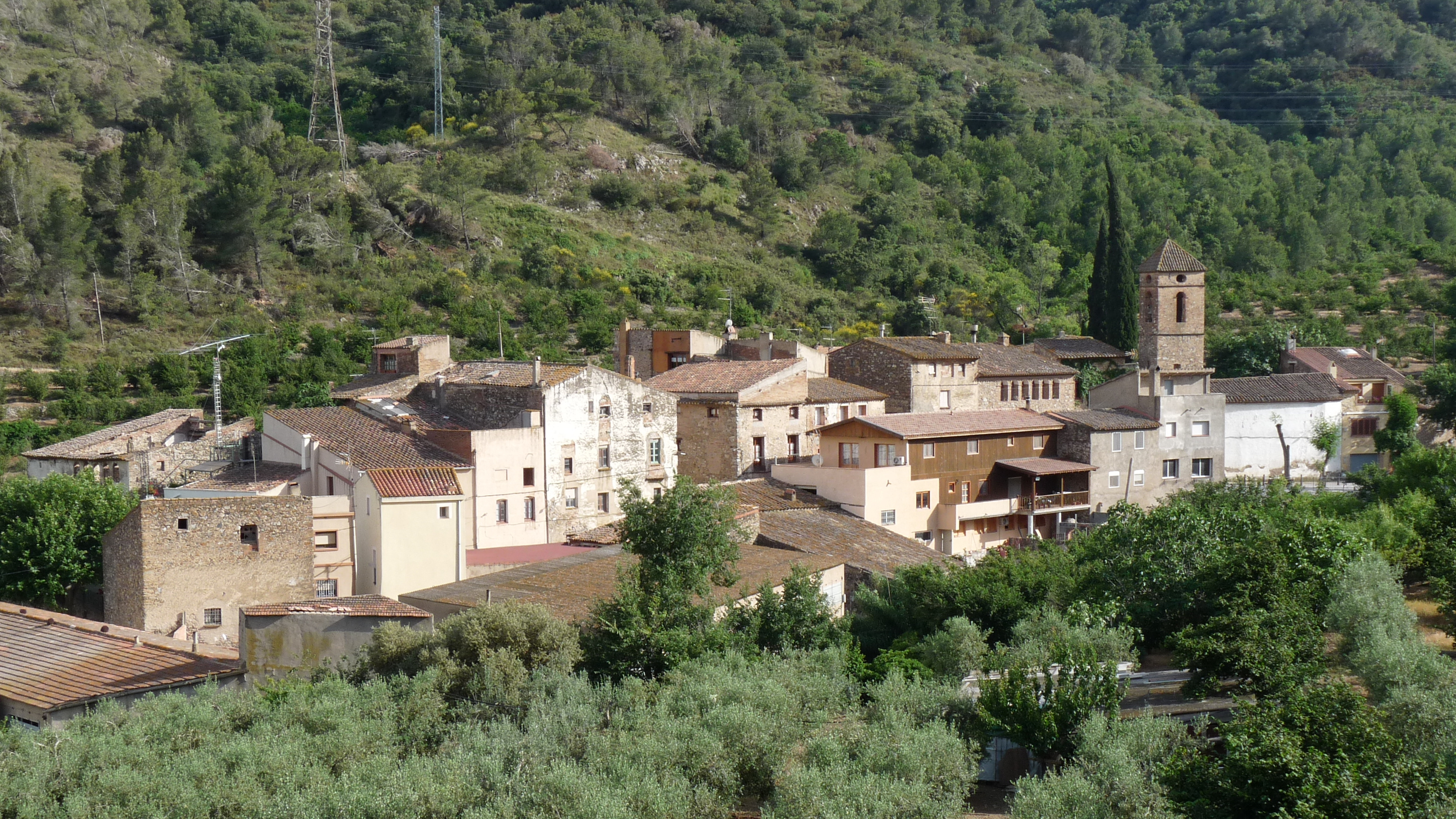 Les Irles, Riudecols.